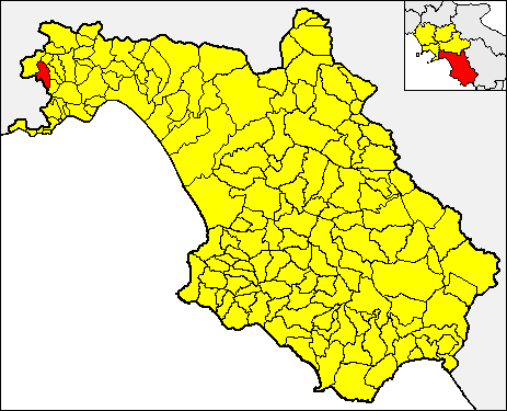 Locator map of the municipality of Angri (red) within the Province of Salerno